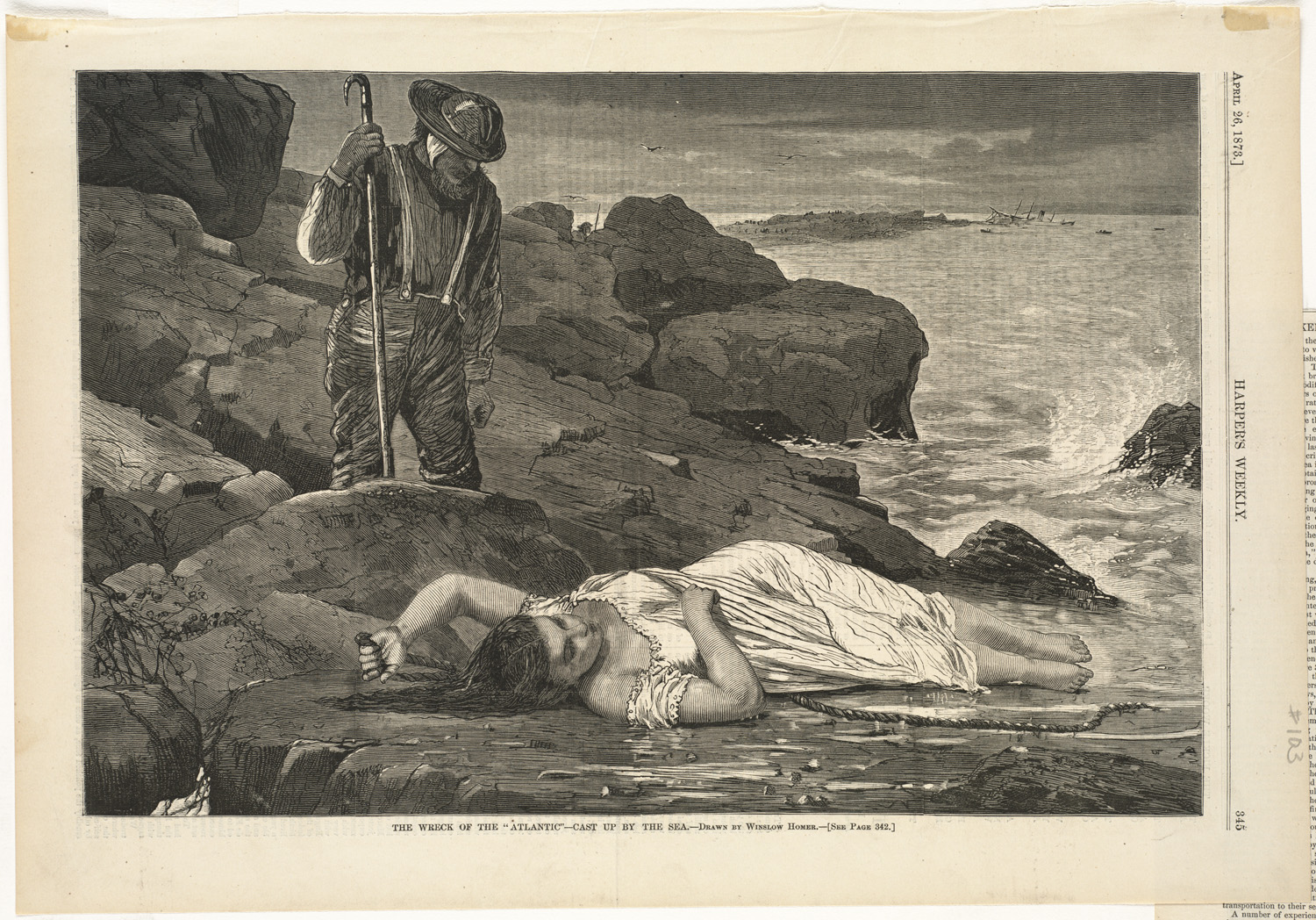 File name: 10_09_000103 Title: The wreck of the "Atlantic" -- Cast up by the sea Creator/Contributor: Homer, Winslow, 1836-1910 (artist) Date issued: 1873-04-26 Physical description: 1 print : wood engraving Genre: Wood engravings; Periodical illustrations Notes: Published in: Harper's Weekly, Volume XVII, 26 April 1873, p. 345.; Drawn by Winslow Homer.; Signed: W H. Collection: Winslow Homer Collection Location: Boston Public Library, Print Department Rights: No known restrictions Flickr data on 2011-08-11: Camera: Sinar AG Sinarback 54 FW, Sinar m Tags: Winslow Homer User: Boston Public Library BPL